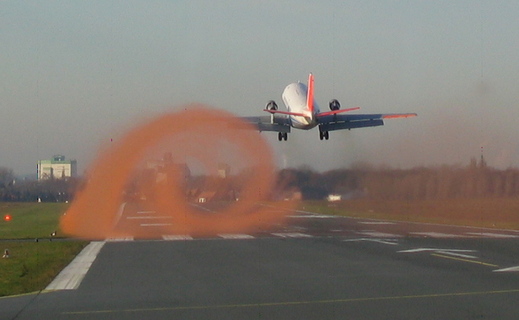 Visualisation of a wake vortex generated by DLR's Advanced Technologies Testing Aircraft System (ATTAS) at the Braunschweig research airfield.